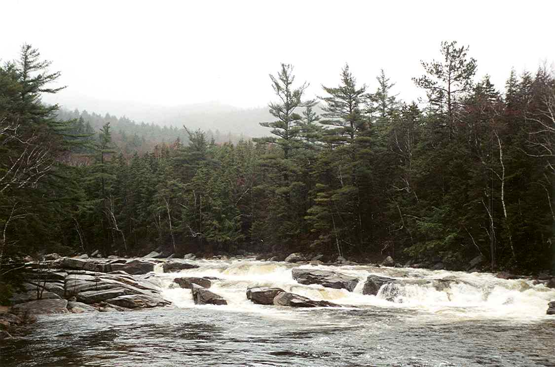 Lower Falls, Swift River, New Hampshire